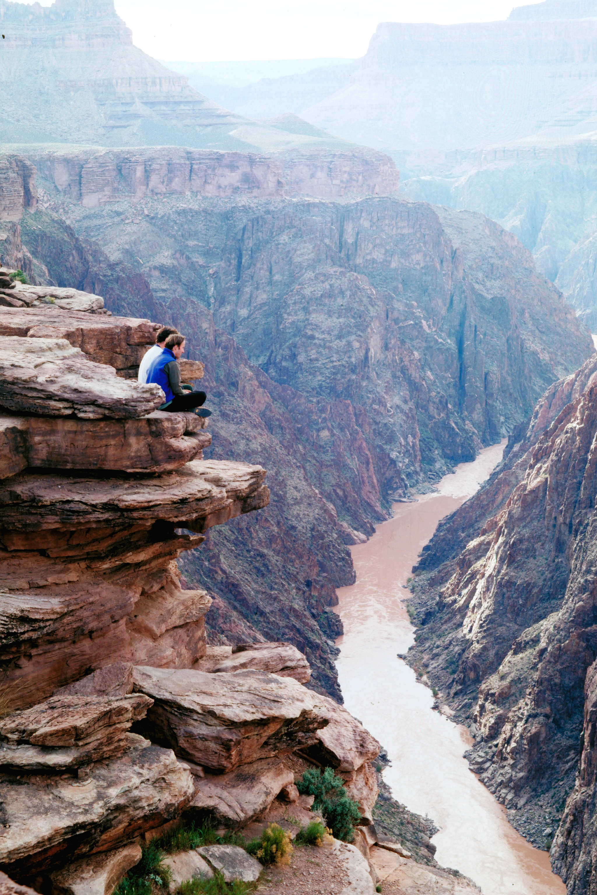 Location Grand Canyon National Park Description A powerful and inspiring landscape, the Grand Canyon overwhelms our senses through its immense size; 277 river miles (446km) long, up to 18 miles (29km) wide, and a mile (1.6km) deep